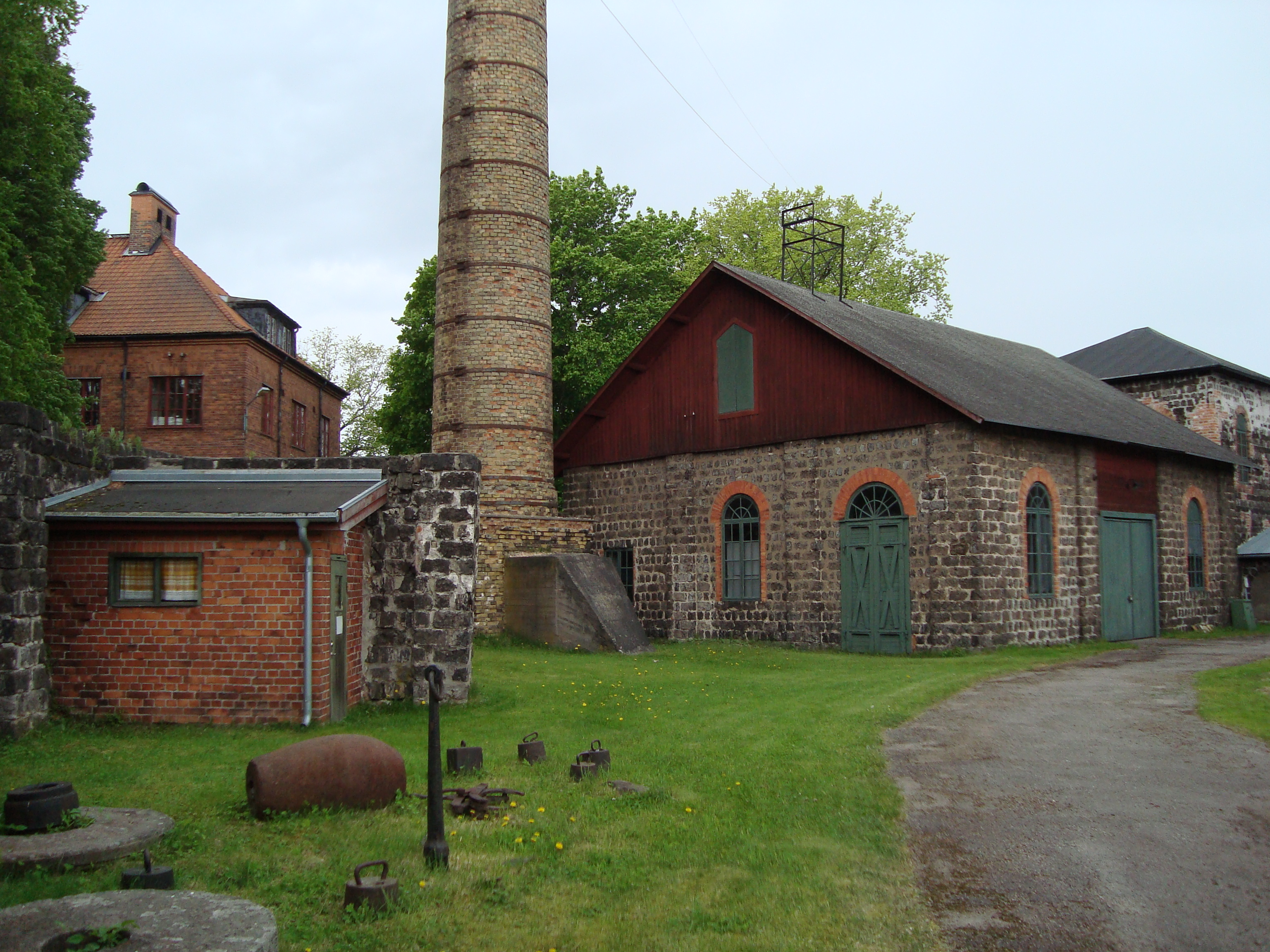 Old iron works of Forsbacka, Gävle Municipality, Sweden